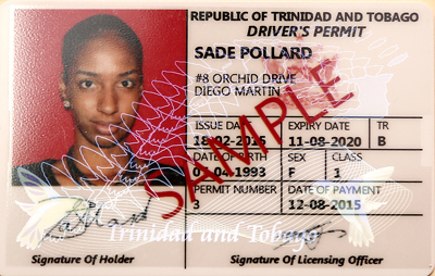 A stock photo given to the media on the new driver's permit features.